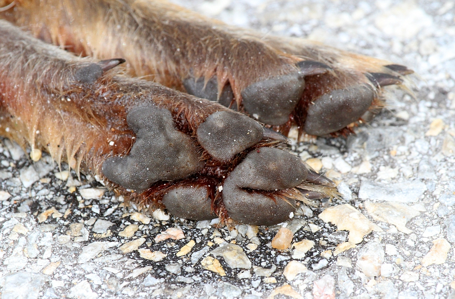 Golden jackal front leg paws from northeastern Greece